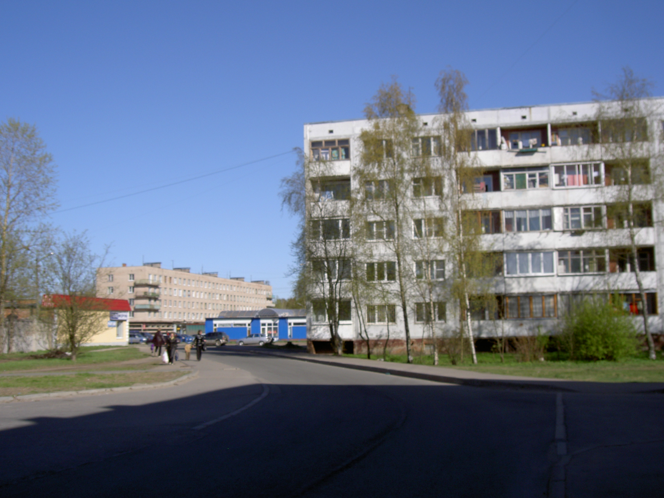 Shveytsarskaya street. Near Krasnogo Flota street